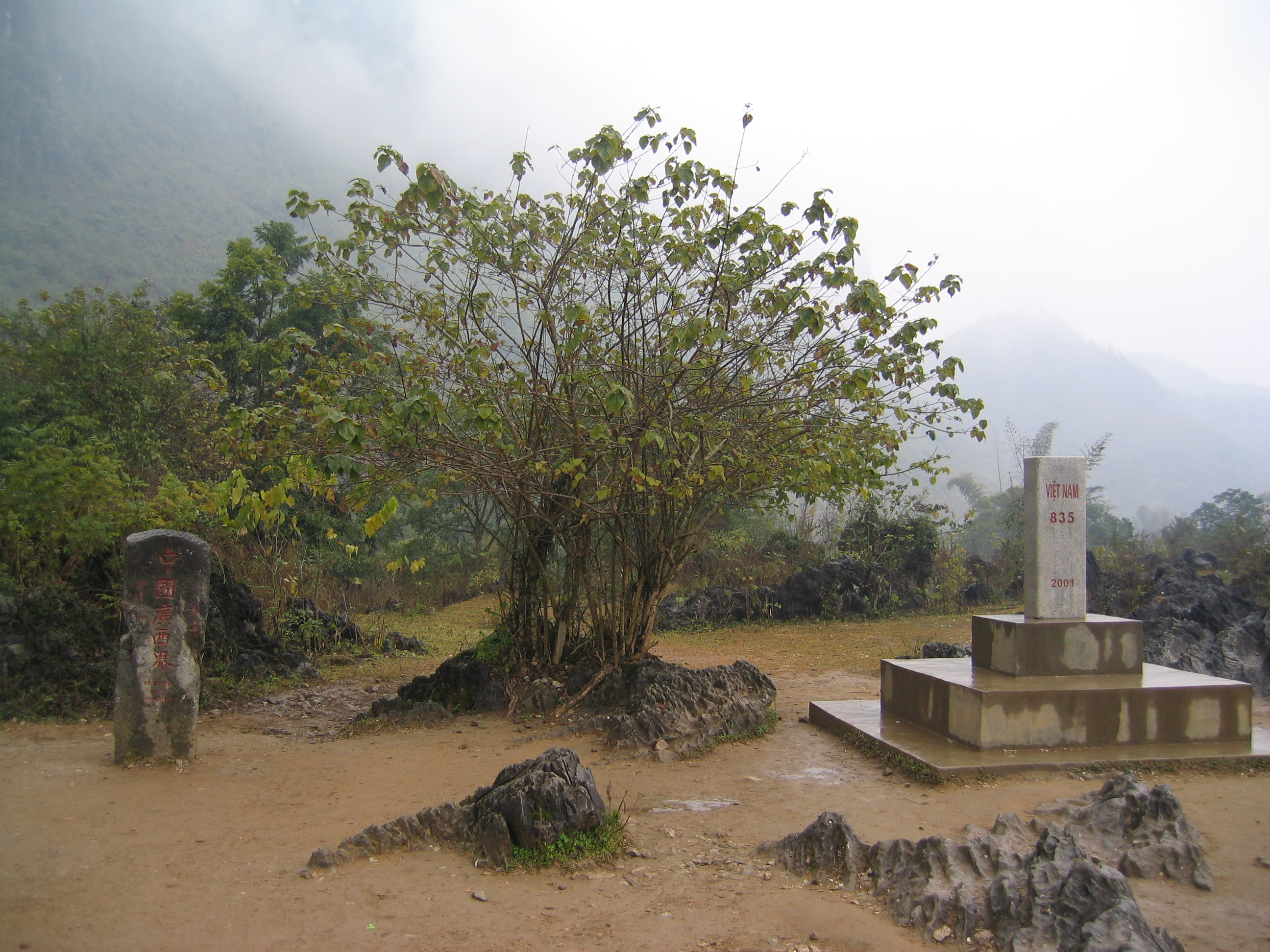 Sino-Vietnamese border near Ban Gioc - Detian Falls